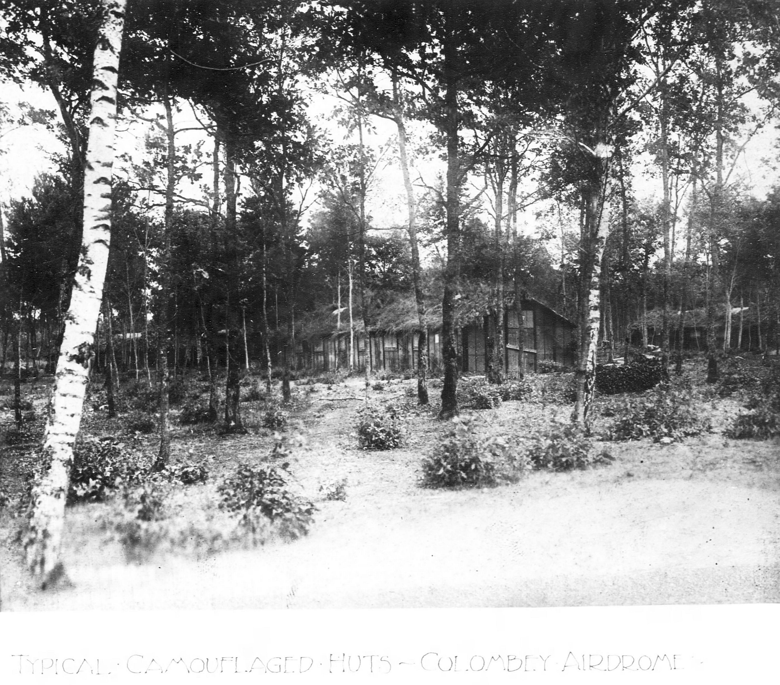 Colombey-les-Belles Aerodrome - Camoflauged Huts